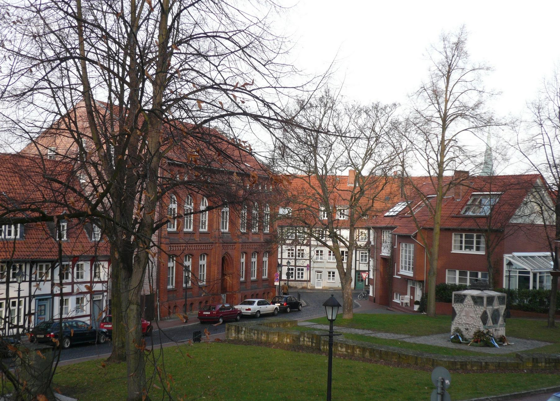 place in Hildesheim, where the synagogue once stood